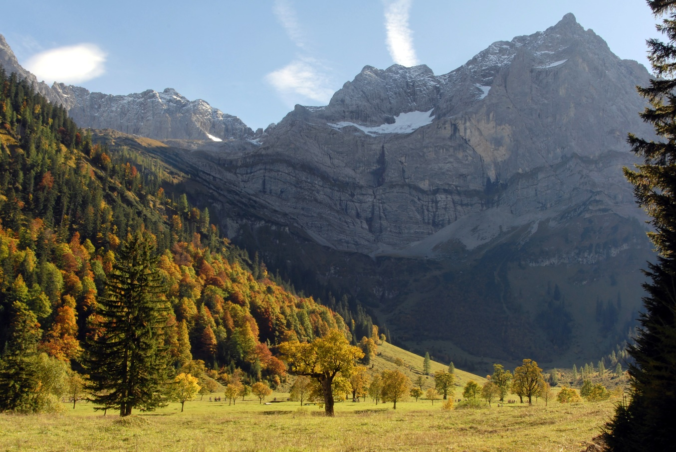 Mountains of Karwendel, Valley of "Großer Ahornboden"